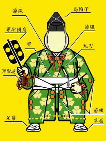 A sumo referee's dress.